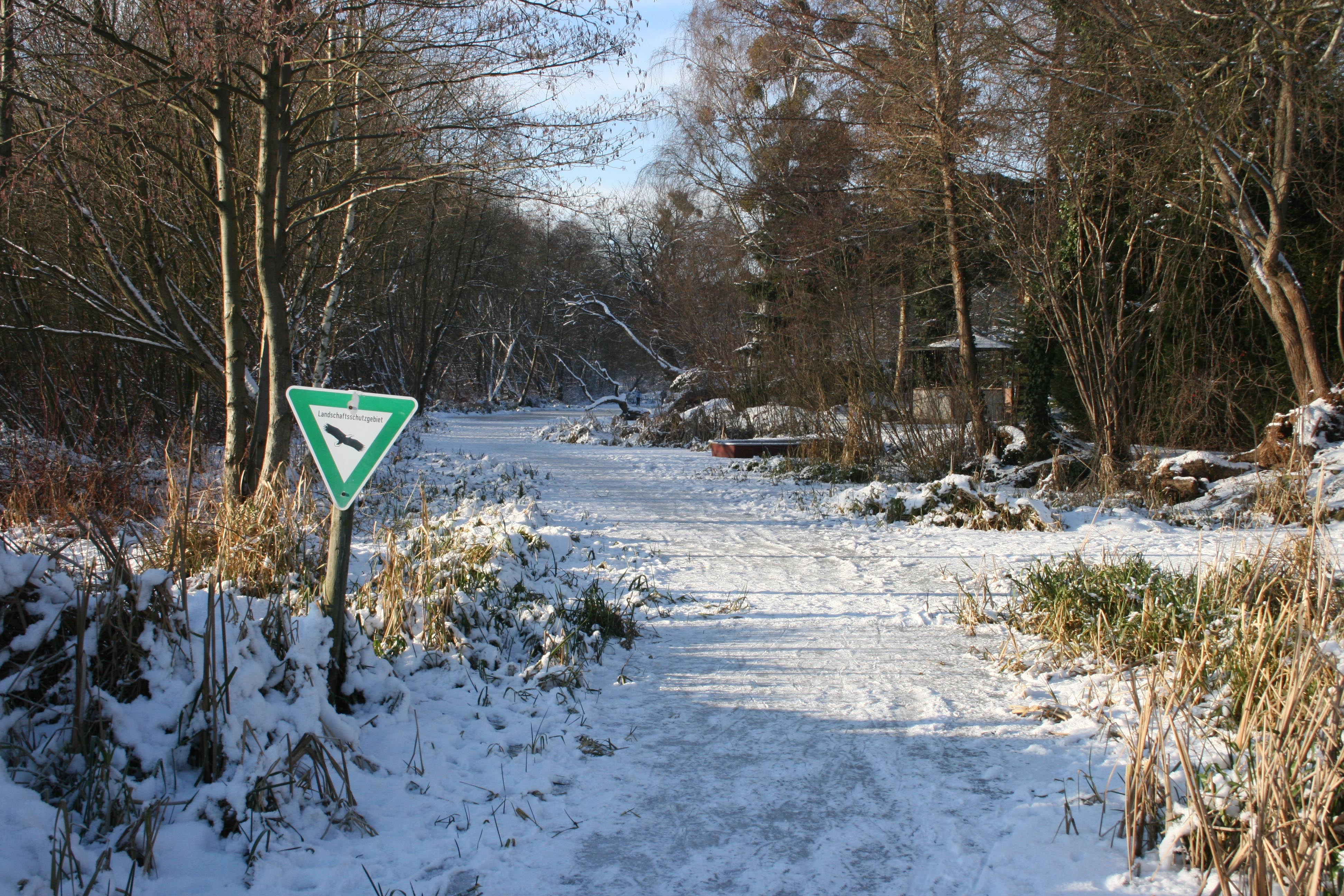 Frozen lake Falkenhagener See in Falkensee near Berlin. Left bank is from bird's island, right bank is the northern bank of the lake. View towards northwest.